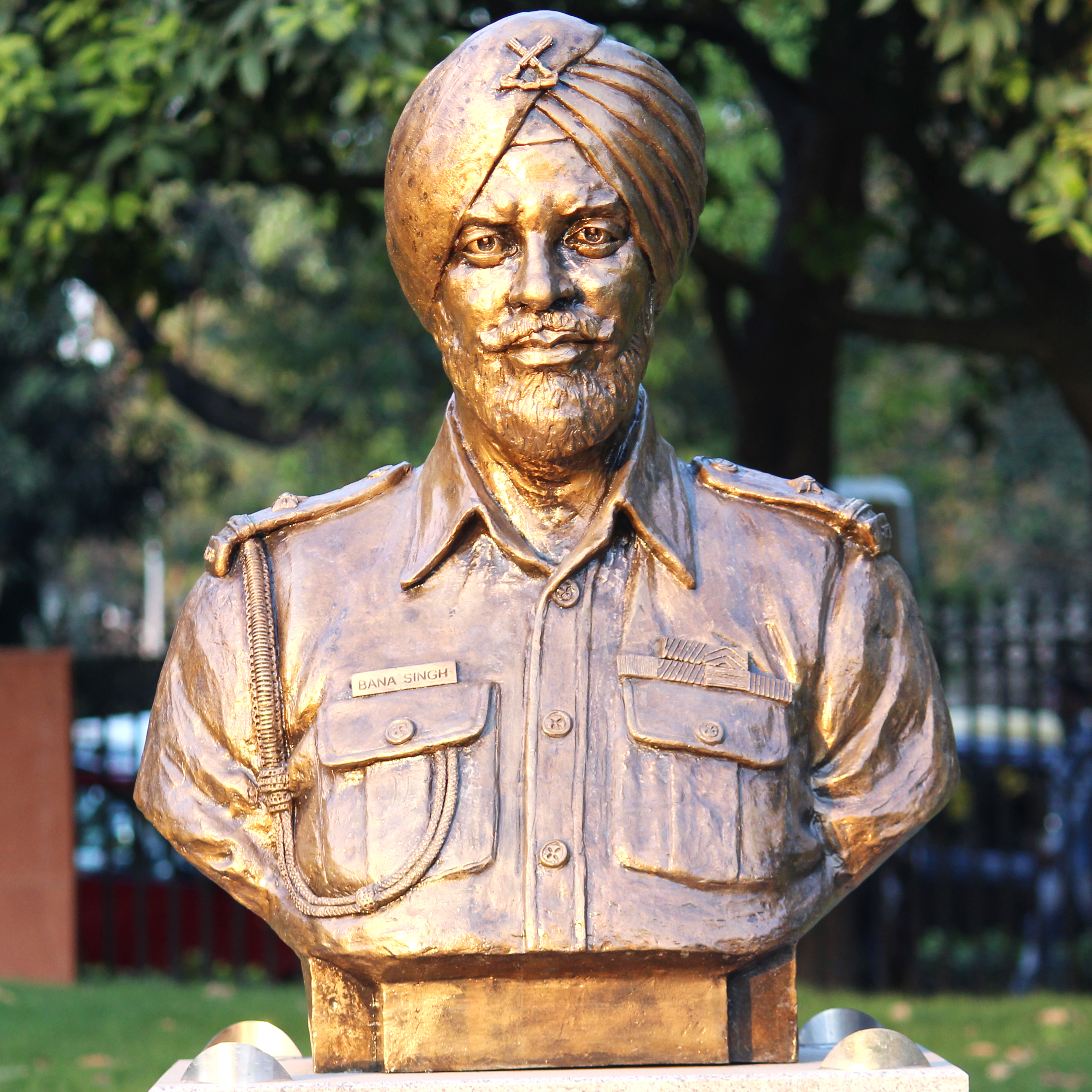 Naib Subedar Bana Singh's statue at Param Yodha Sthal (section for Param Vir Chakra recipients), National War Memorial, New Delhi.